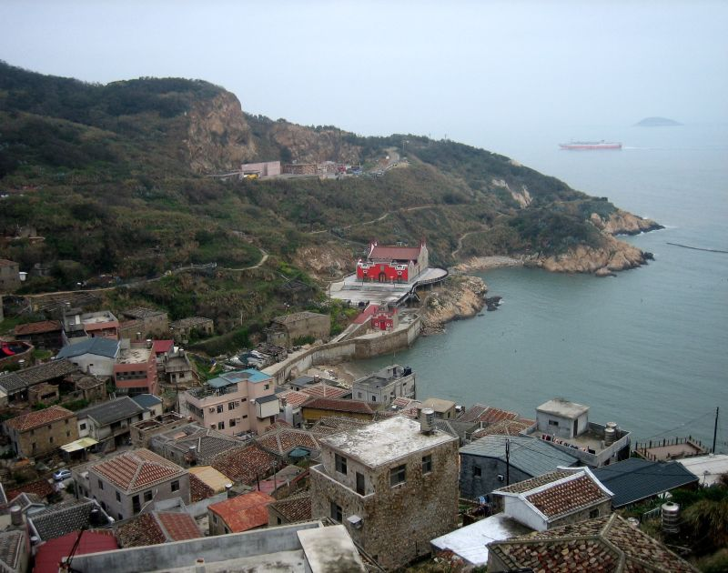 Fuxing Village, Nangan Township, Lienchiang County, Fujian Province, Republic of China